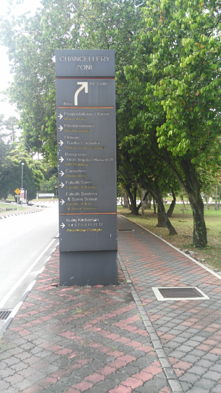 This is one of at least a dozen street signs at the University of Malaya showing the driving directions to academic buildings and other locations on the campus.